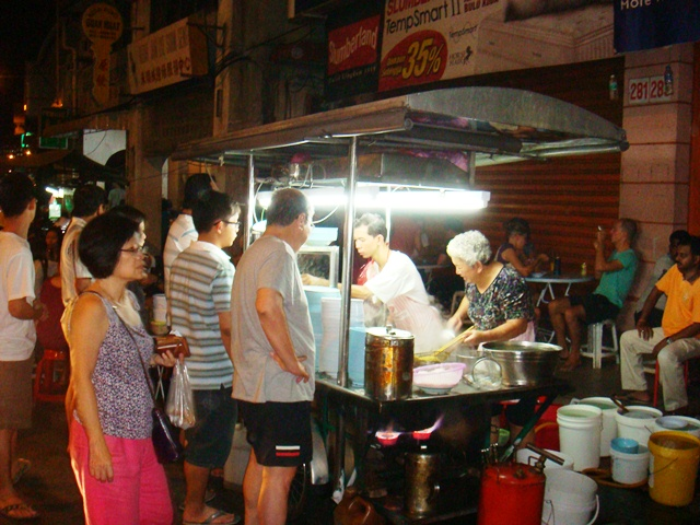 Wonton Miee Stall, Georgetown (Malaysia).